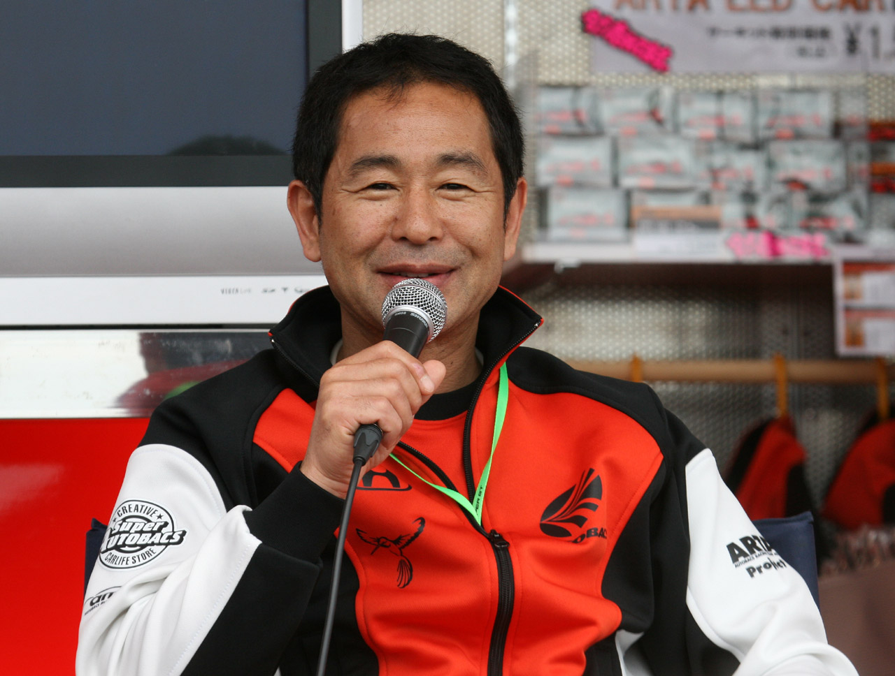 Super GT 2008 Rd.3: Keiichi Tsuchiya, as Executive Advisor of ARTA.